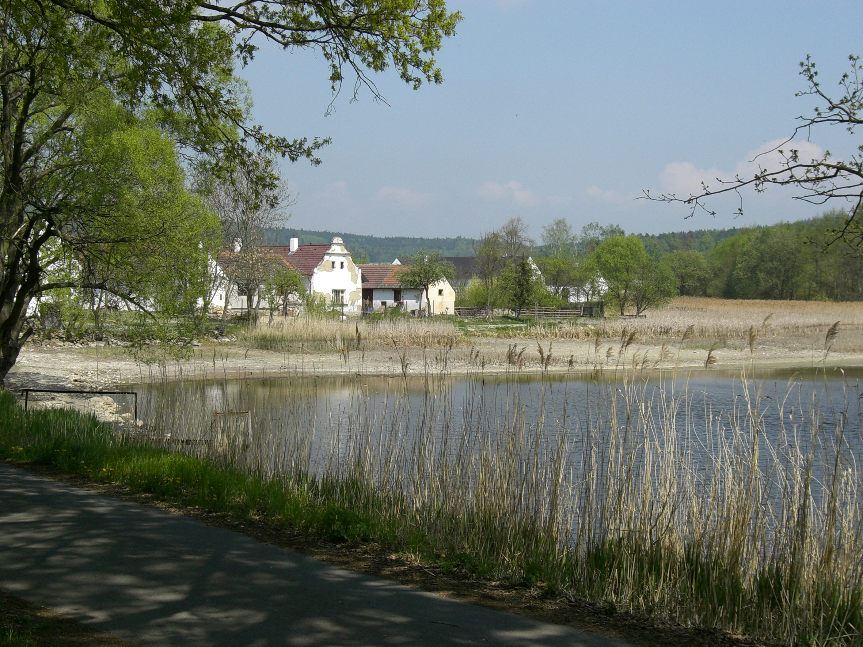 Protected area Zelendárky near Žďár, Písek district, Czech Republic.